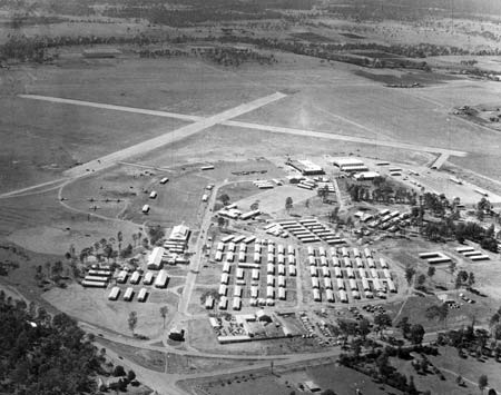 The largest operational base in the Air Force today, Amberley commenced operations in 1940. During World War II, Amberley housed training and maintenance units, in addition to a large number of US Army Air Force units. After World War II, Amberley became the home of the RAAF's bomber squadrons, a role which continues to the present day.